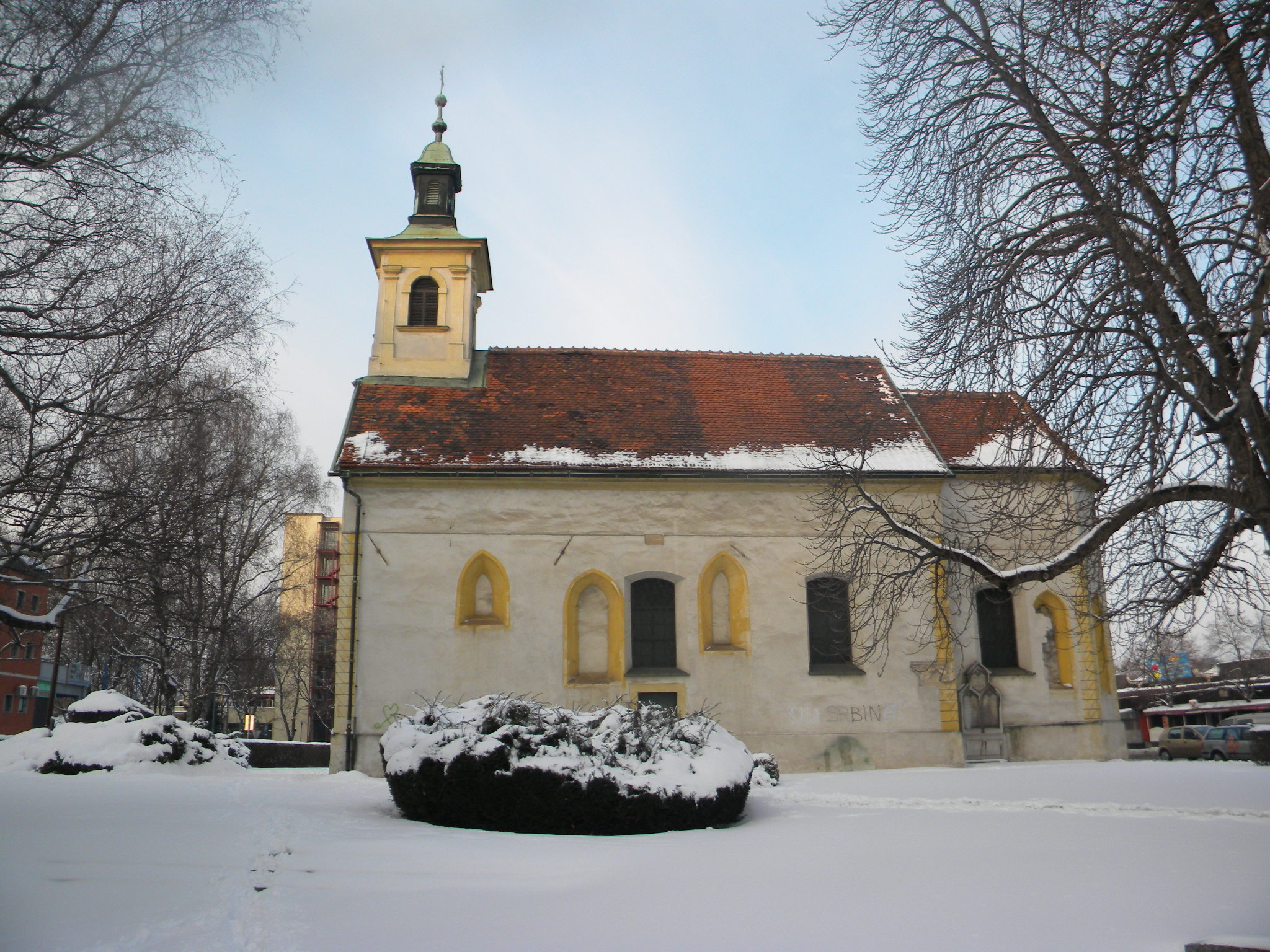 church os st max in celje